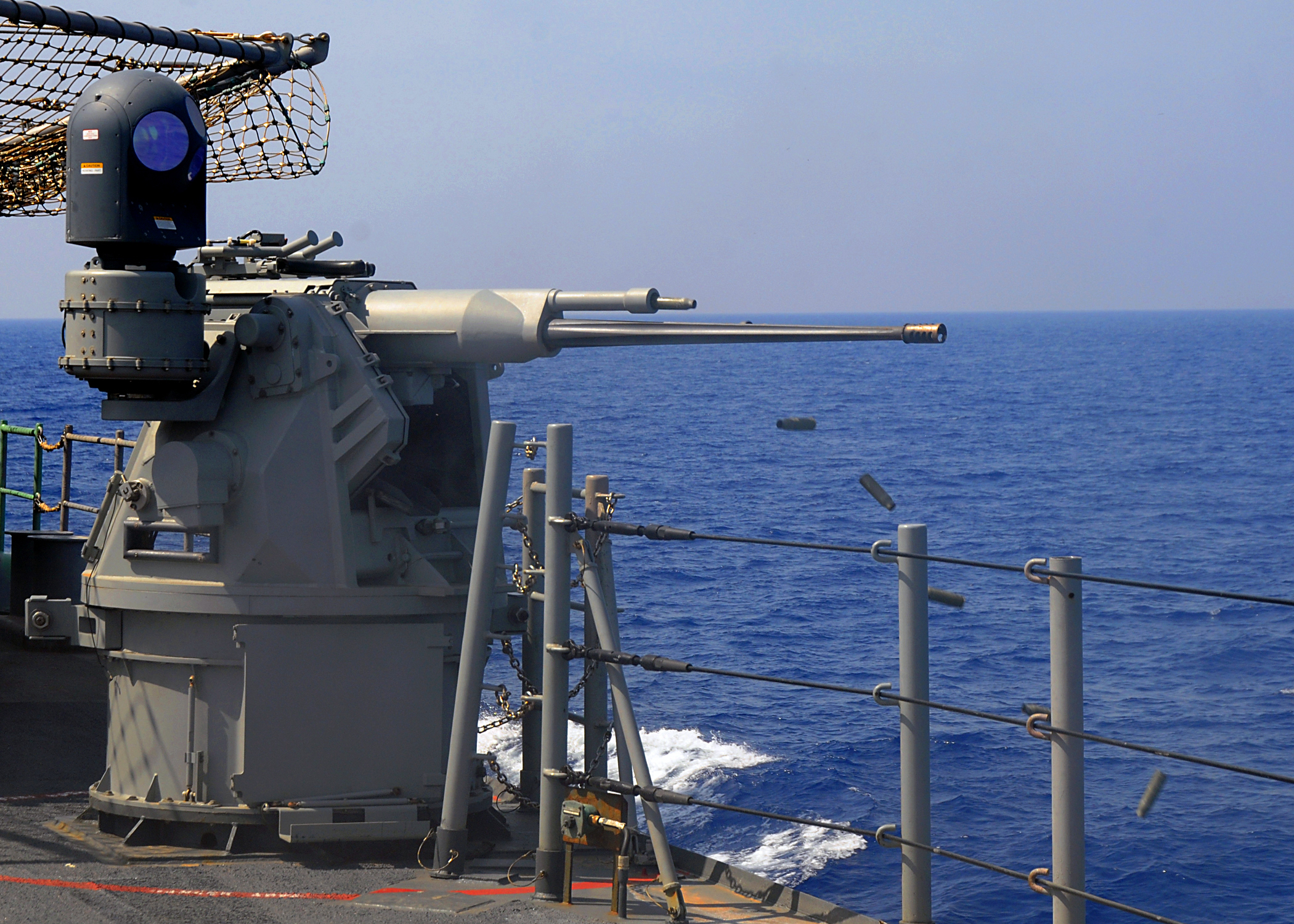 A MK-38 25mm gun system is fired during a live fire exercise aboard the guided-missile cruiser USS Vella Gulf (CG 72).